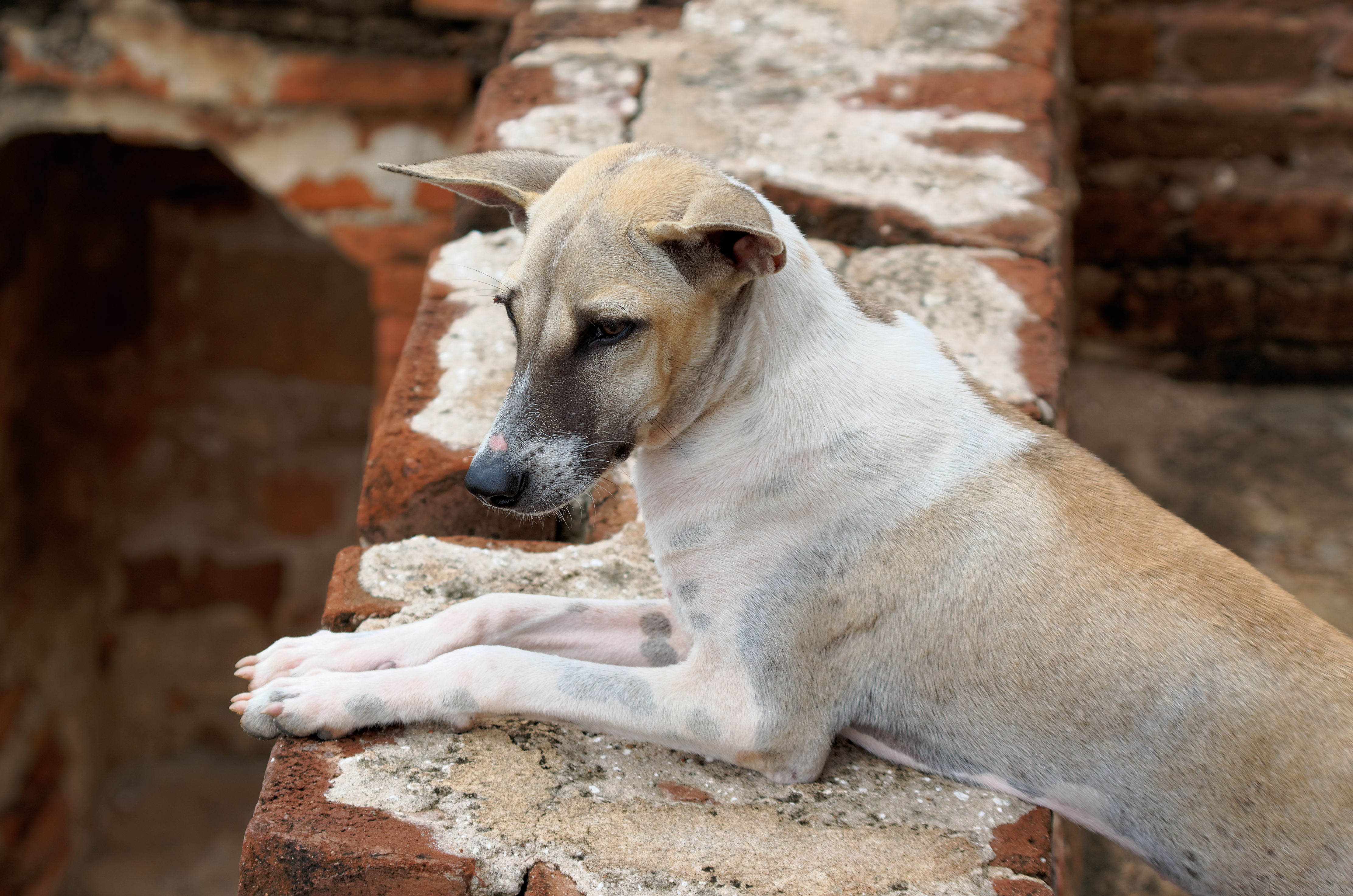 Feral dog in a temple on Bagan Plain in Myanmar